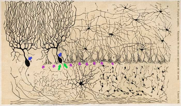 axo-axonic synapse (Green) in cerebellum formed on Purkinje (Blue) axon hillock by Basket cell projections (Pink); chicken